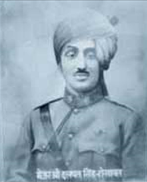 Thakur Dalpat Singh 1